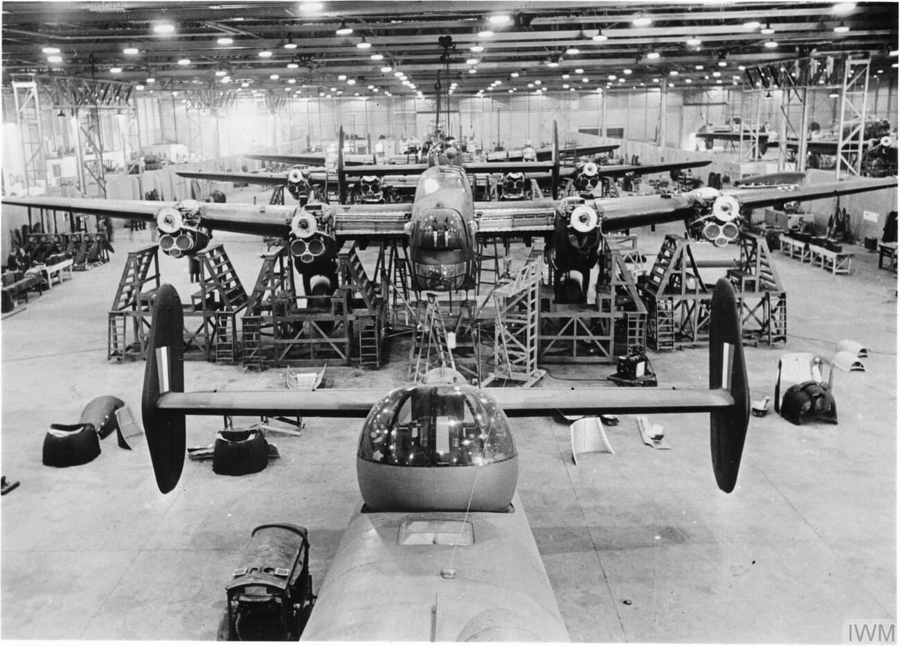 Birth of a Bomber- Aircraft Production in Britain, 1942 An impressive view of a row of Halifax bombers being assembled at the Handley Page factory at Cricklewood. The aircraft can be seen looking from nose to tail, rather than in profile, with the tail of the first aircraft visible in the foreground.